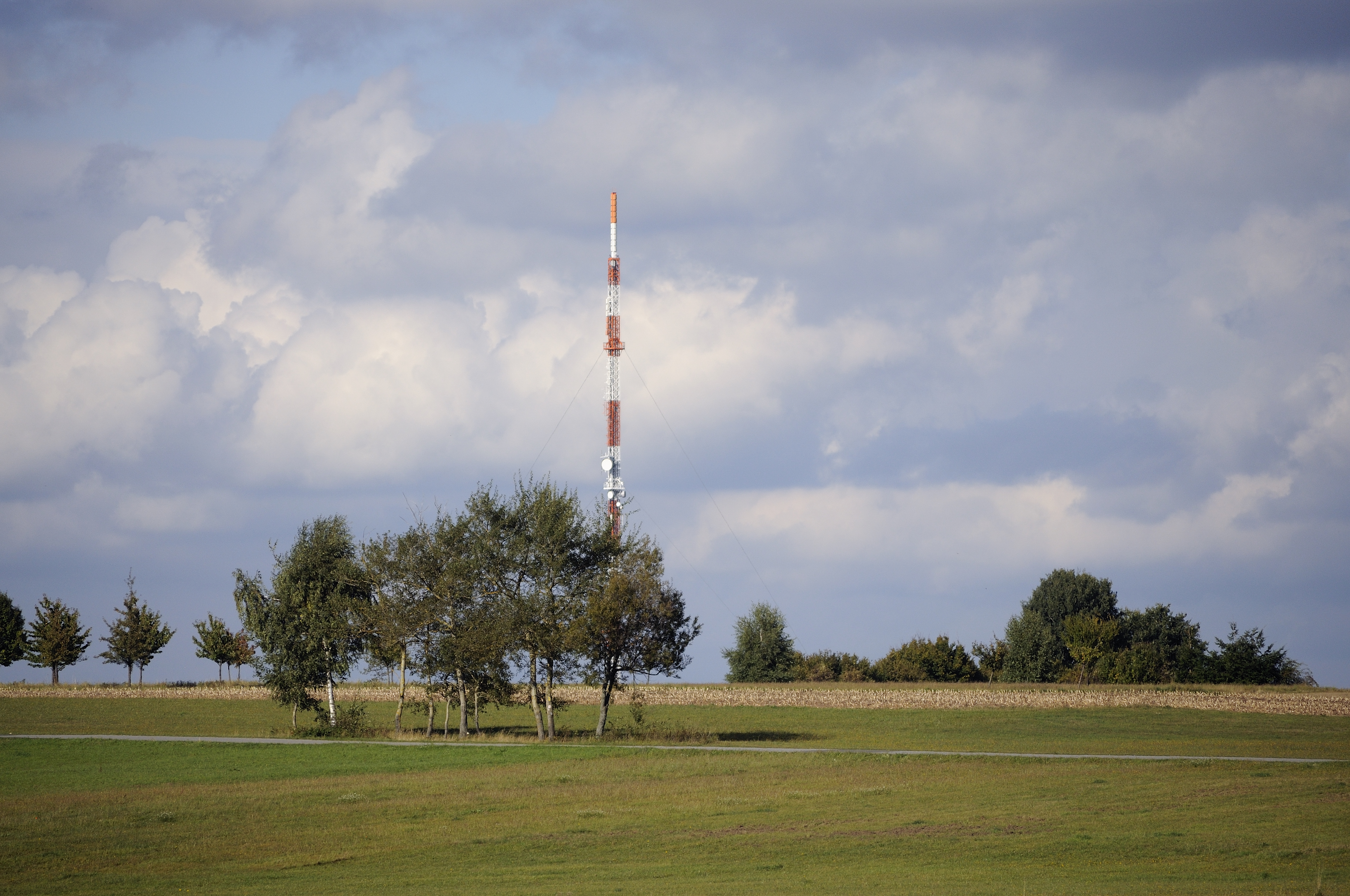 Limes Congress 2012.